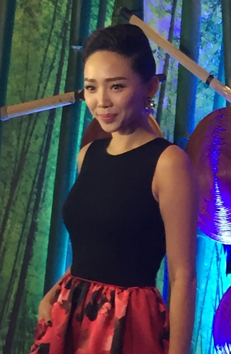 Tóc Tiên at the premiere for "Big Girls Don't Cry" music video.